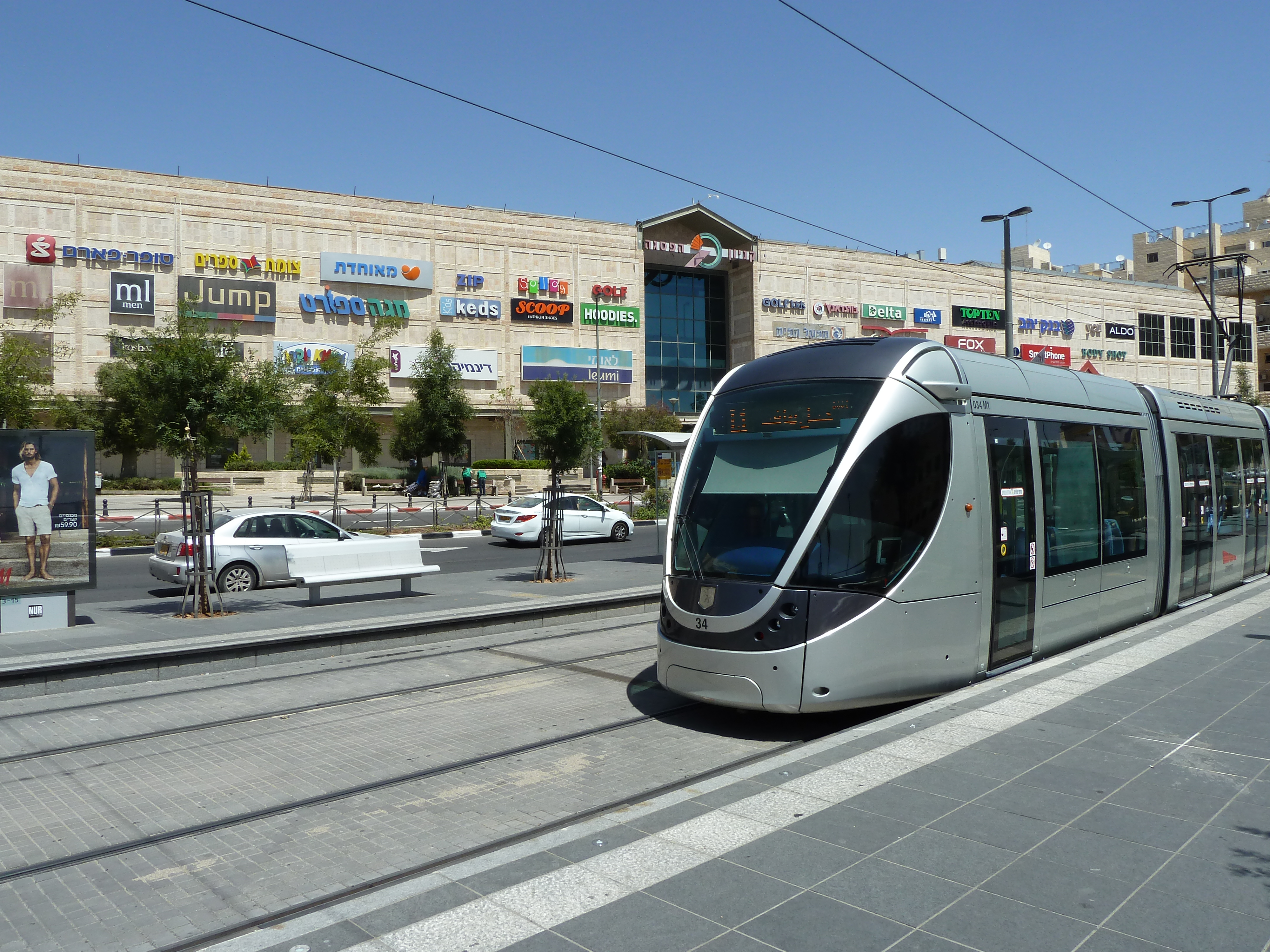 Jerusalem Pisgat Zeev Mall and Light Rail